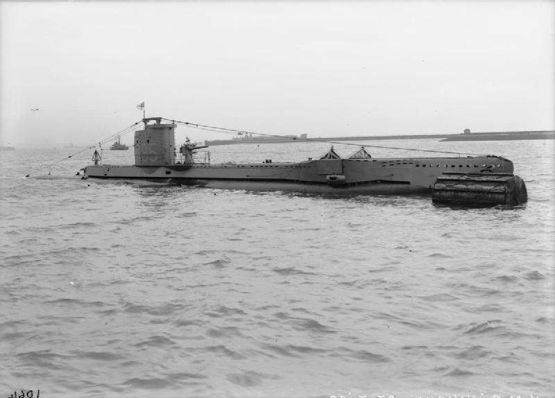 British U class submarine HMSM UNIQUE at a buoy.